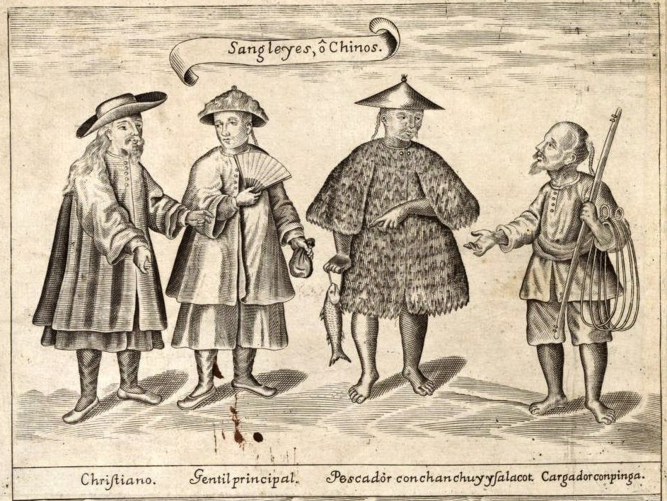 Sangleys are Chinese immigrants to Spanish colonial Philippines. Detail from the Carta Hydrographica y Chorographica de las Yslas Filipinas (1734) shows four Sangleys; the two gentlemen on the left are well-dressed and are members of the Principalia - the upper class. One is a Christian, the other a heathen - a non-Christian. The two individuals on the right belong to the working class - one is a fisherman and the other is a porter.